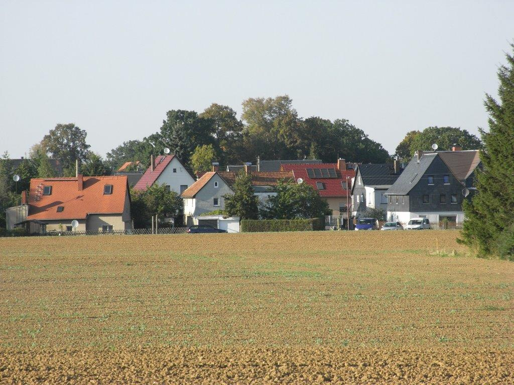 District Neuschönfels